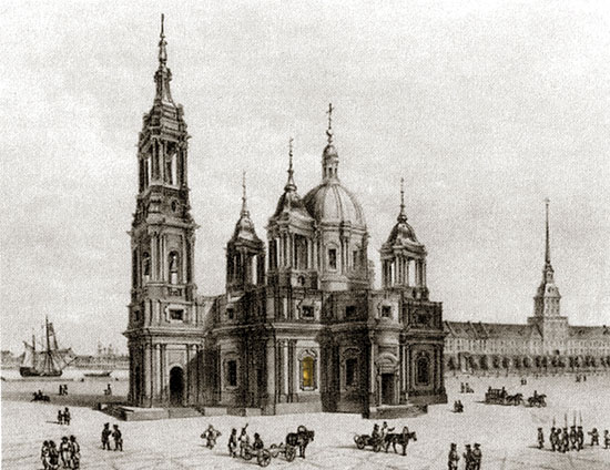 The Antonio Rinaldi's project of third St. Isaac's cathedral in Saint Petersburg. Lithography of Auguste de Montferrand's Drawing.